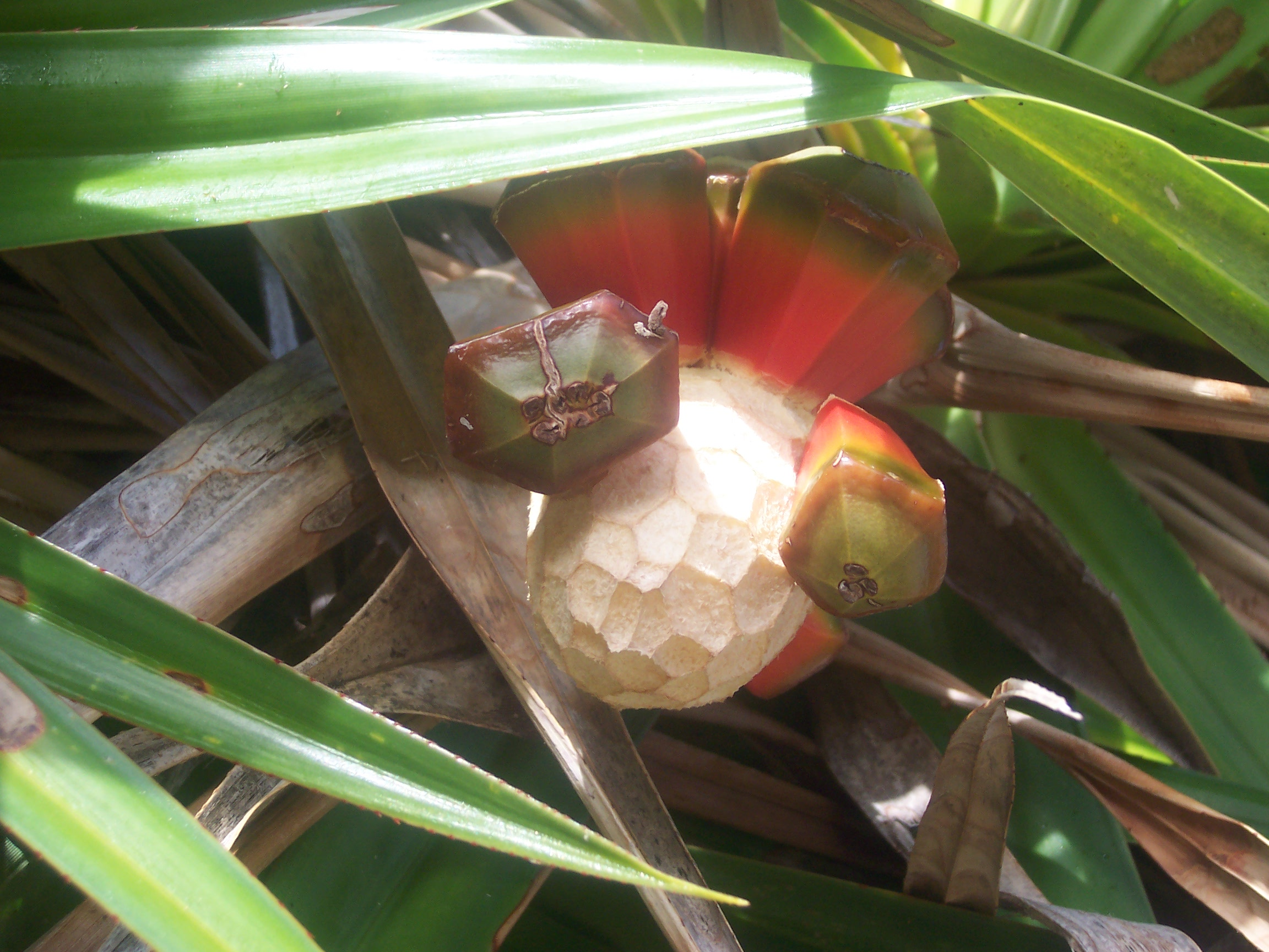 Pandanus heterocarpus (